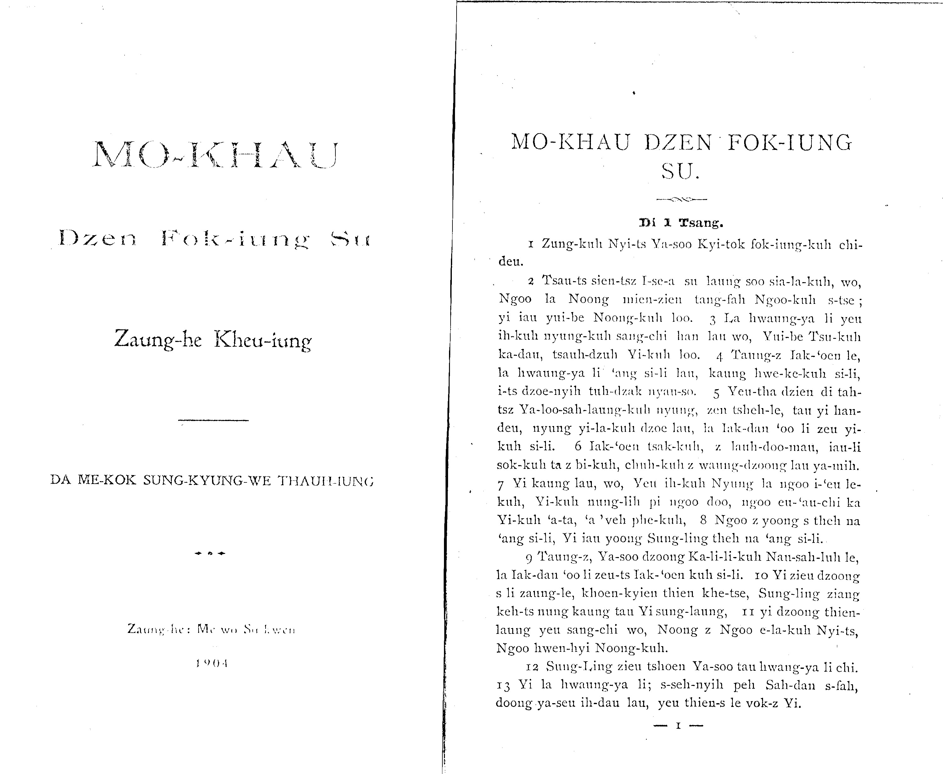 Gosperl of Mark, Shanghainese Bible.